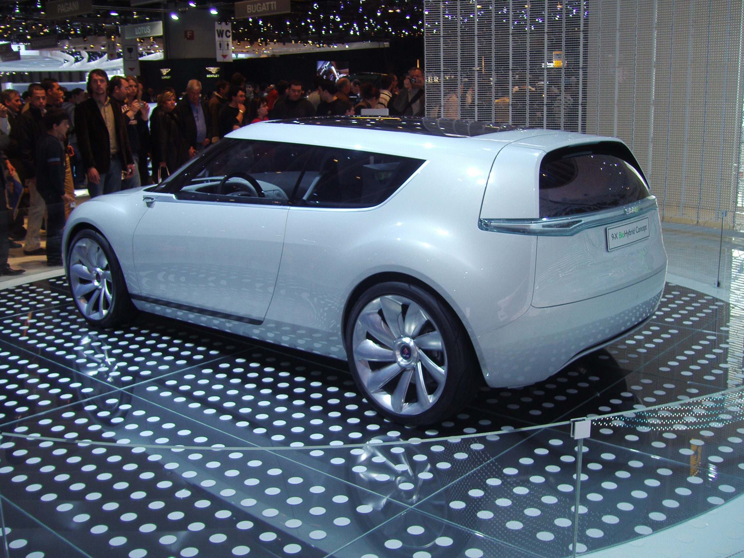 Saab 9-X BioHybrid at the 2008 Geneva Motor Show